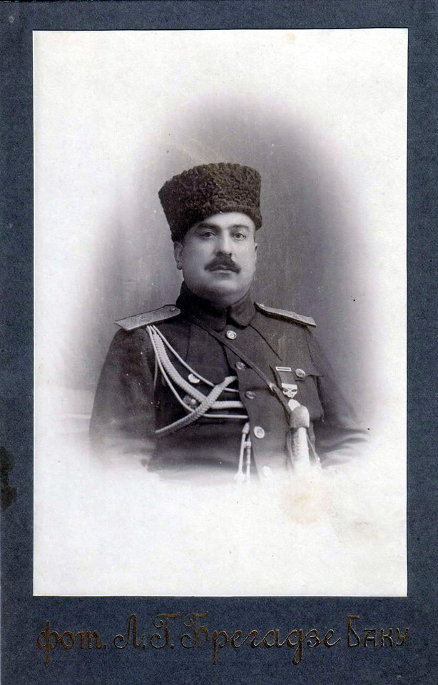 Azerbaijani general, Habib bey Salimov.